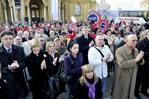 Ivo Josipović starting his presidential campaign in front of the Croatian National Theatre in Zagreb.